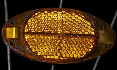 The cat's eye mountes on bicycle wheel.